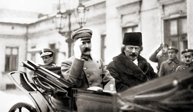 Chief of Polish State Józef Piłsudski and Prime Minister of Republic of Poland Ignacy Paderewski arriving to Polish Parliament.